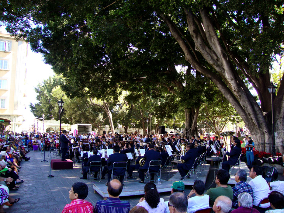 The Band of Music from Oaxaca State performs Bajo el Laurel.